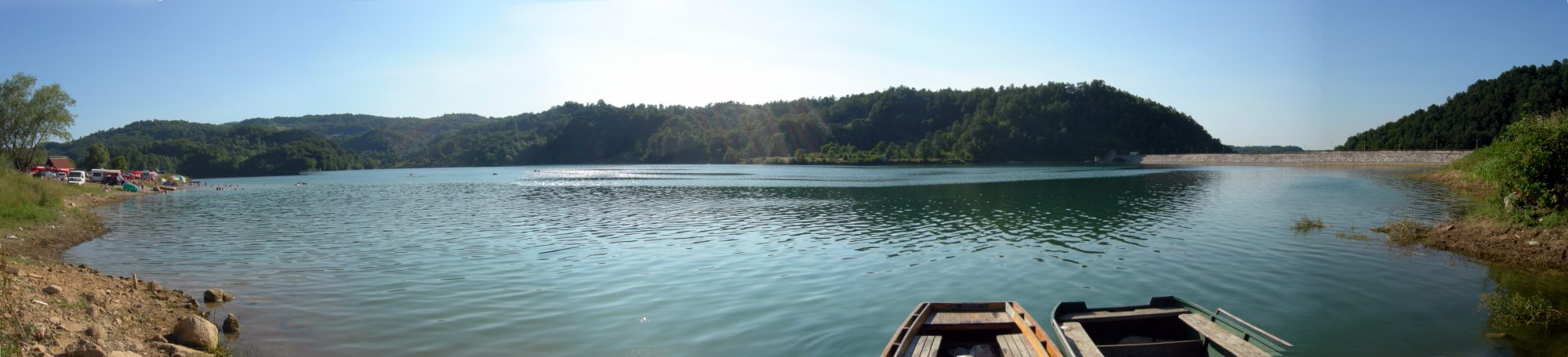 Panoramic view of Sniježnica lake in Bosnia and Herzegovina.